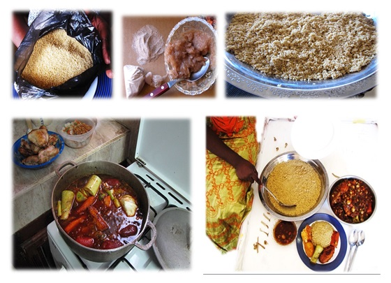 Thièré (in Wolof - names vary) a fine pellet millet flour steamed couscous cooked with 'lalo mbeb', Wolof for the reconstituted dry sap of the baobab tree (Adansonia digitata) served here with chicken stew sauce. Note: Millet produces a seed with a hard and inedible hull. It must be milled by hand or by machine to remove this hull before it can be ground into millet flour. Millet-based recipes in Africa are based on sifted millet flour or rolled millet flour pellets, not on unprocessed millet seeds This is an image of food from Senegal